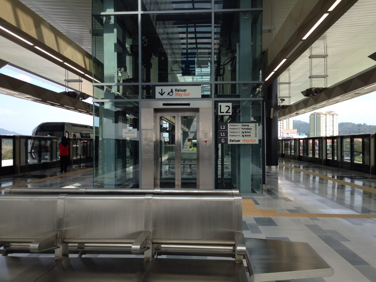 MRT SBK Kwasa Damansara platform centre